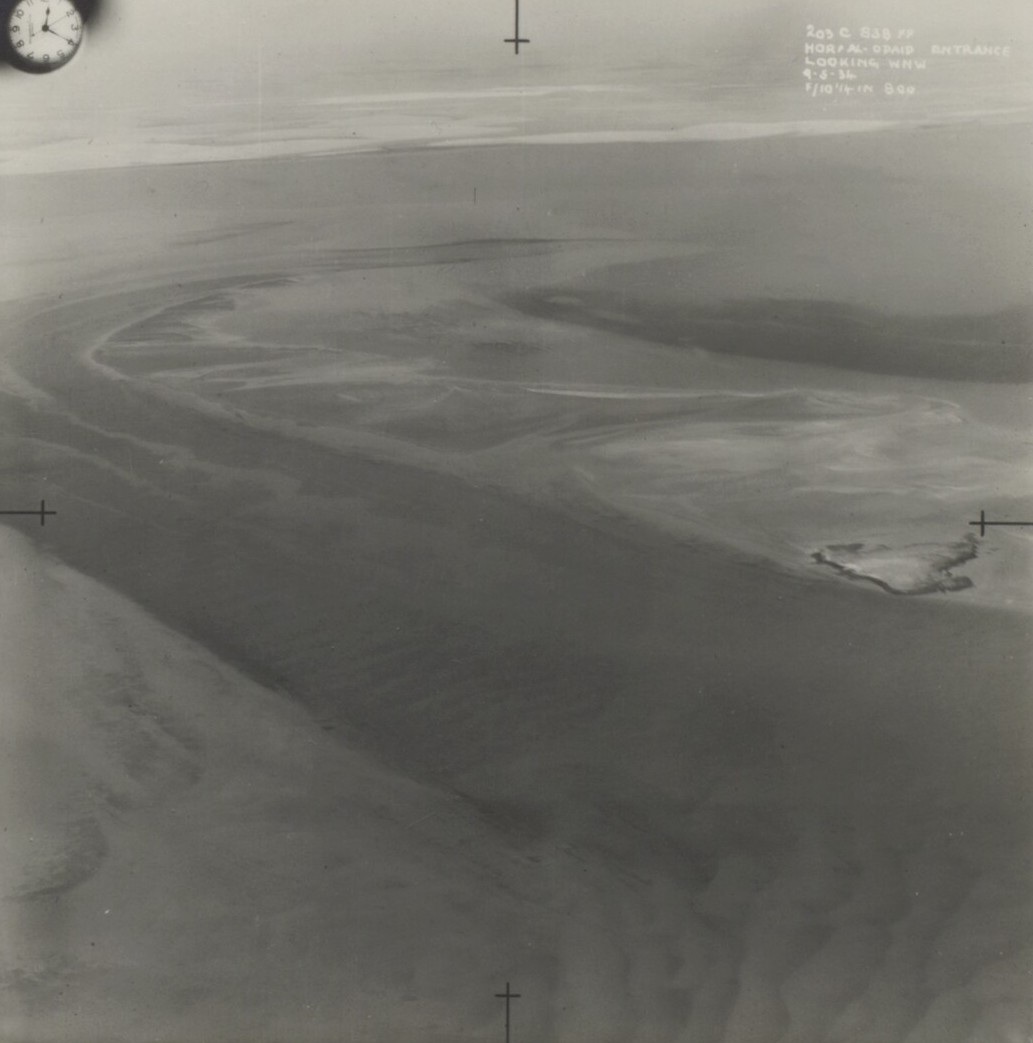 Entrance to Khawr al Udayd looking WNW, photographed during a reconnaisance mission by the Royal Air Force on 9 May 1934.